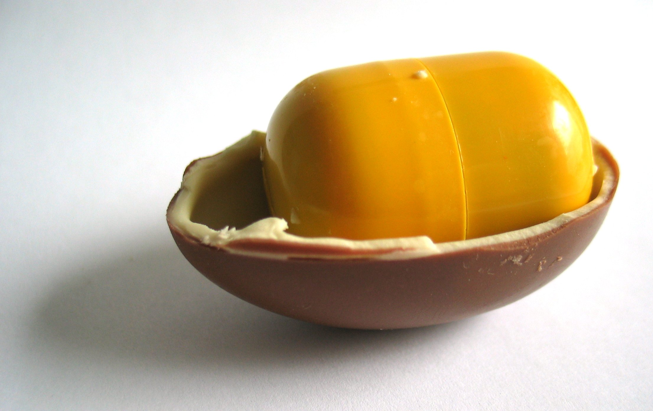 A Kinder Surprise halved, showing the plastic shell which contains the toy.